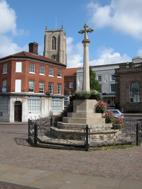 Picture of the war memorial in Fakenham, Norfolk, England showing the tower of the church of St Peter and St Paul in the background